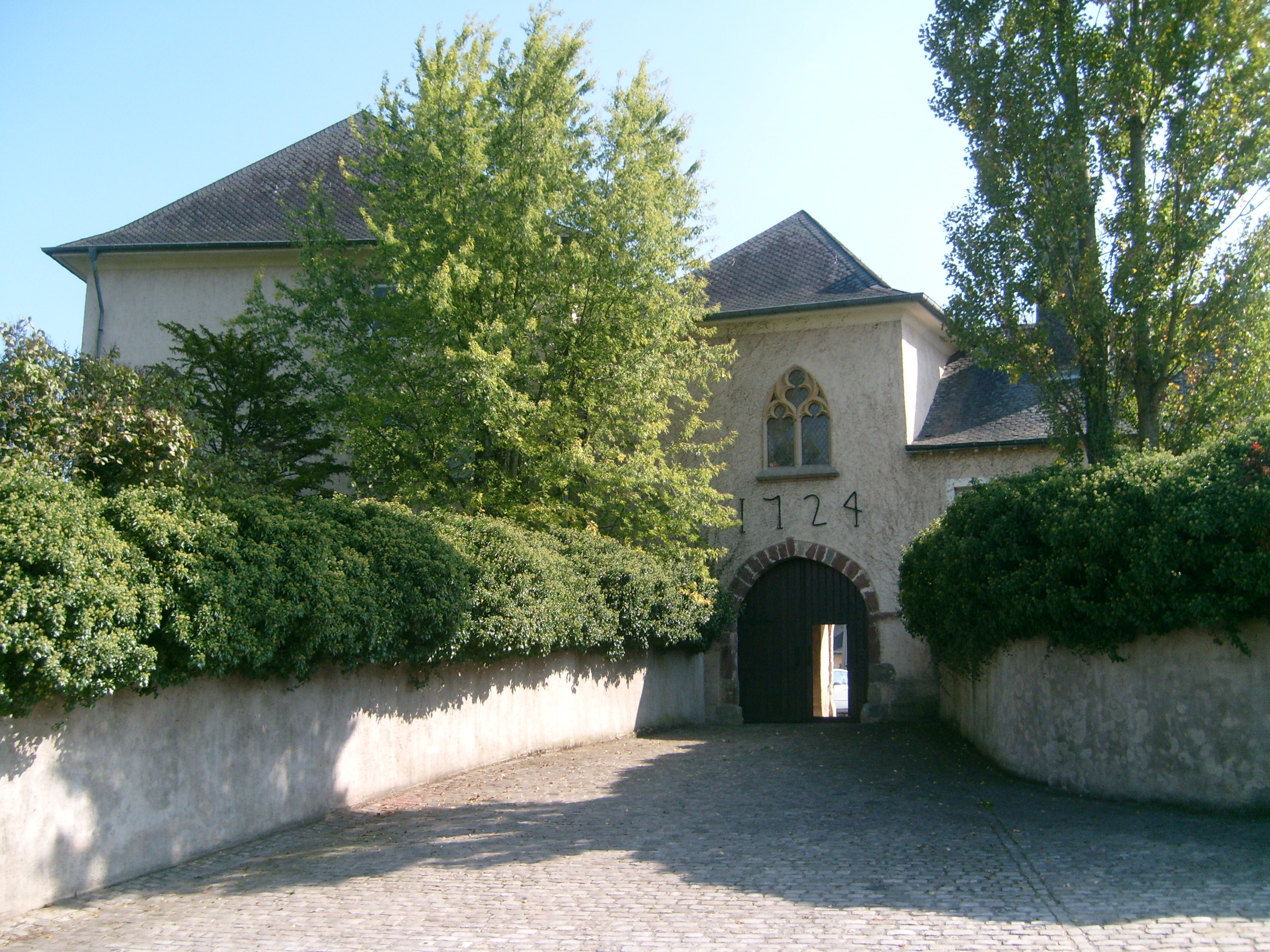 The castle in Stadtbredimus, Luxembourg.